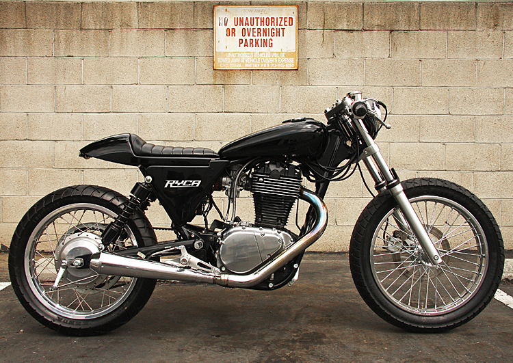 Suzuki S40 outfitted with the Ryca CS-1 kit.